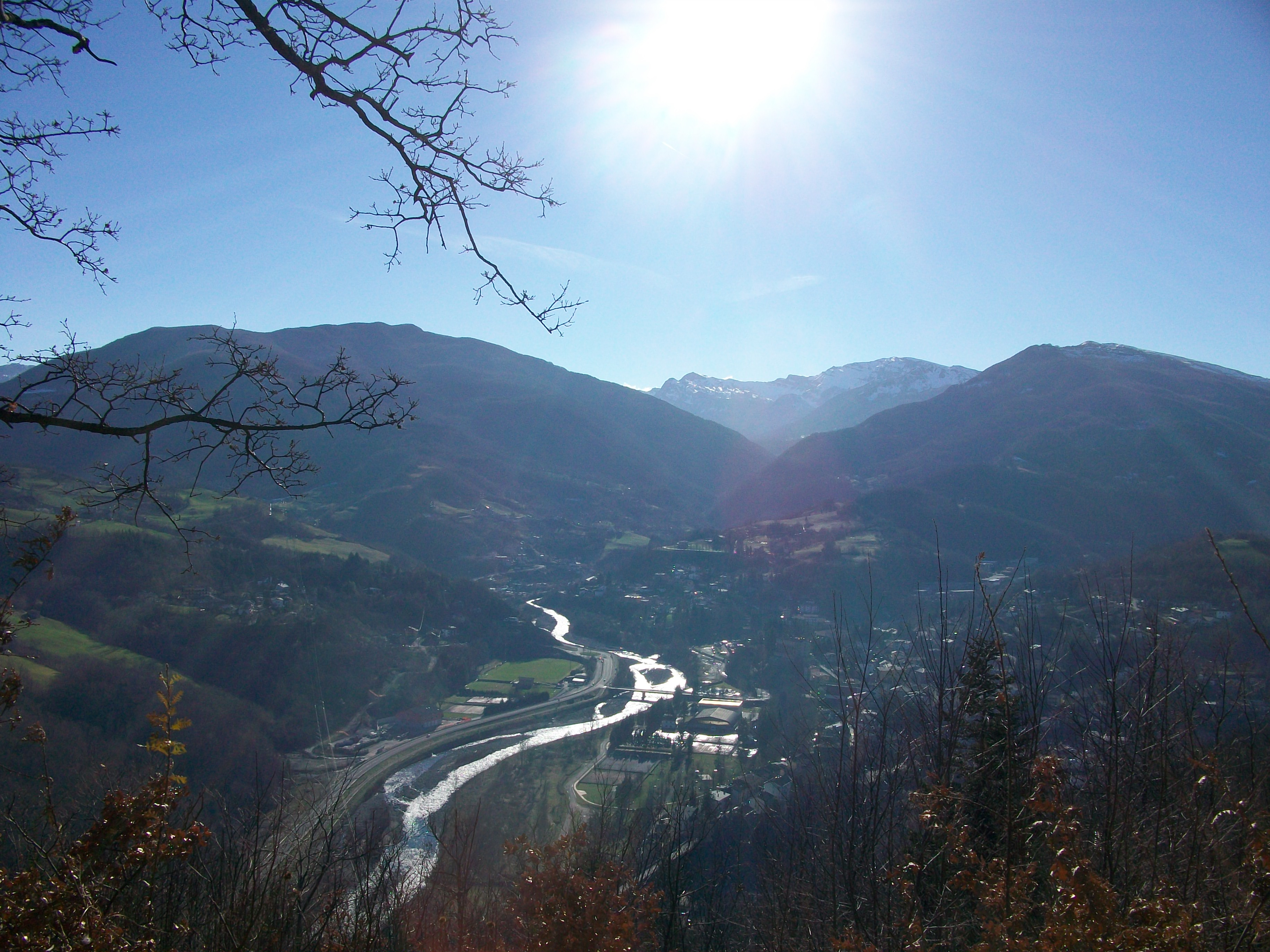 Pievepelago is a community in the Apennine Mountains of the province of Modena, region Emilia-Romagna.